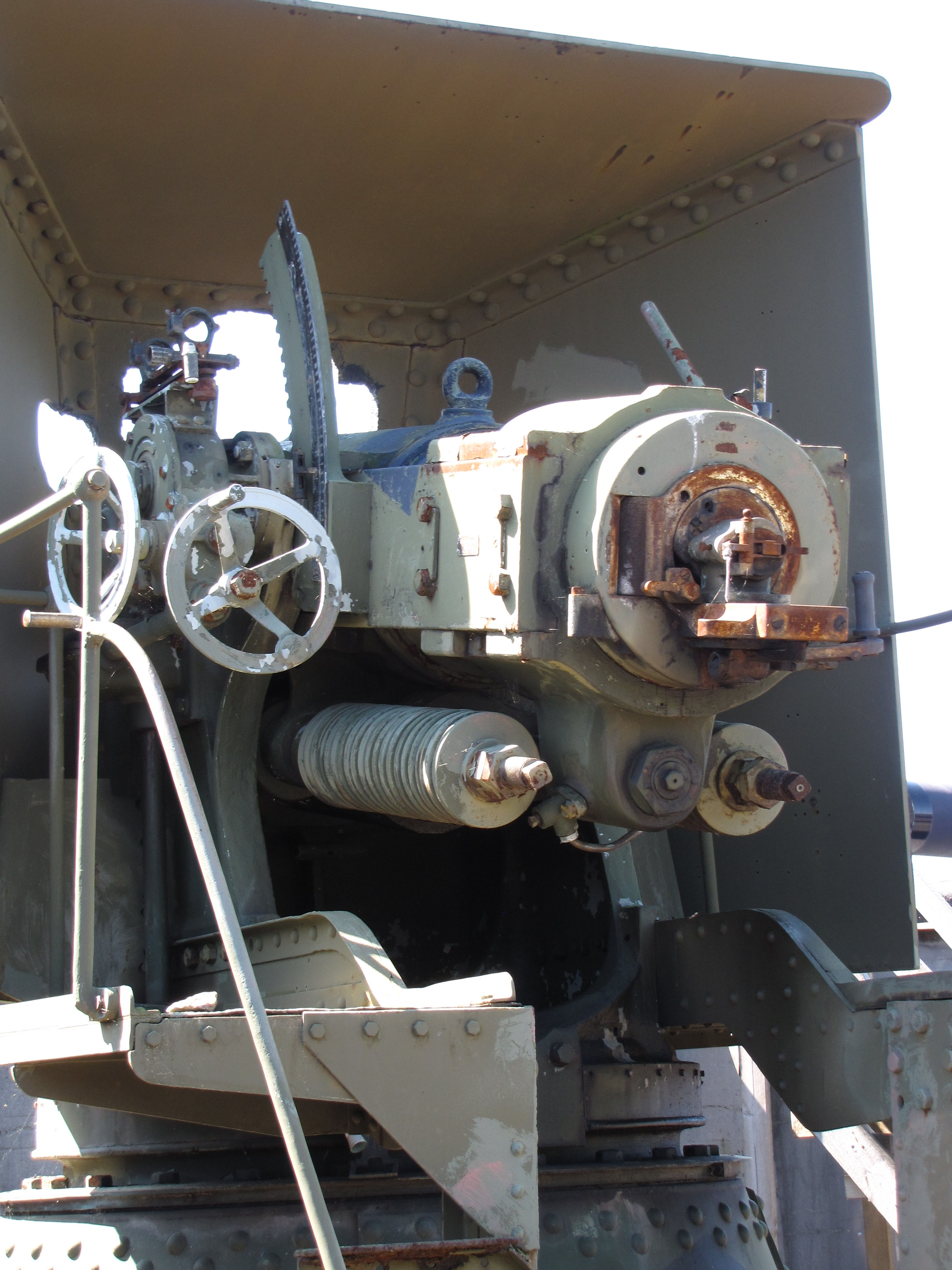 152 mm 45 calibre Canet model 1892 coastal gun in Kuivasaari island. This gun has been restored to original condition, though the fortified position was originally intended for a 254mm (10inch) Durlacher gun. Manufactured by Obukhov state plant in 1896, serial number 30.